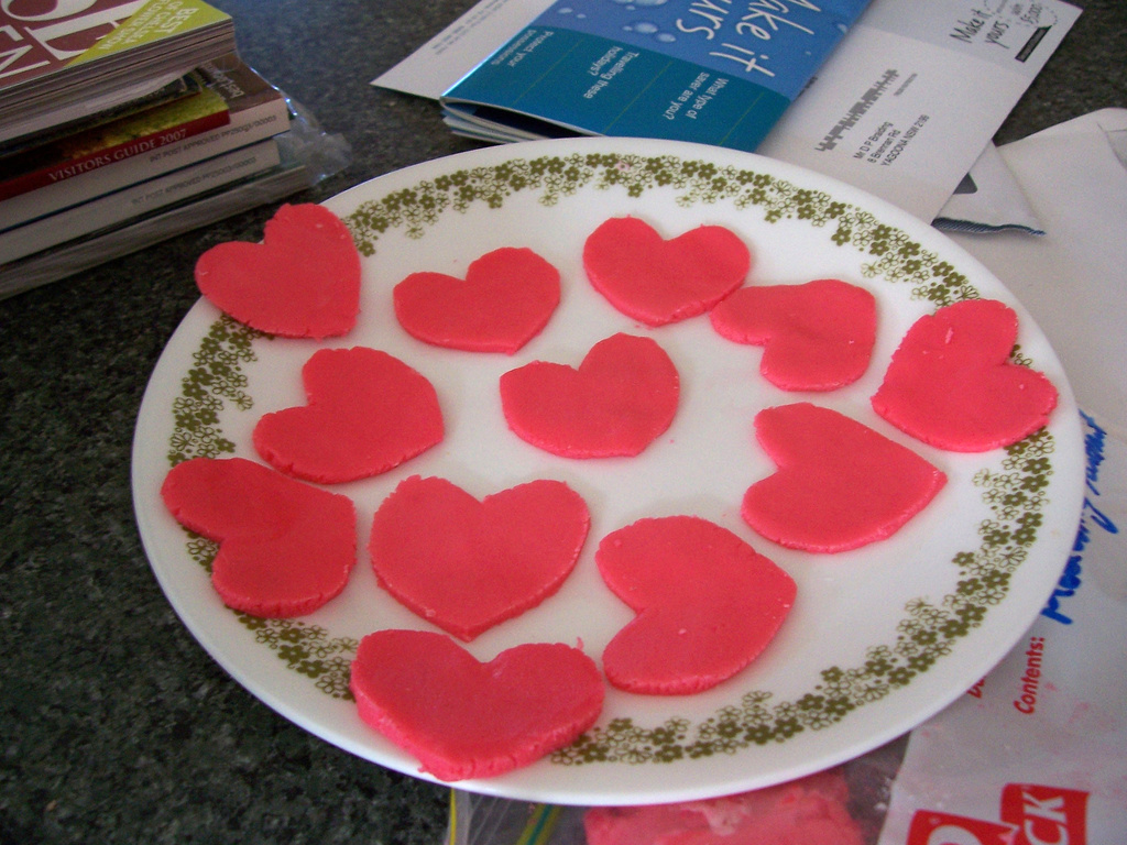 I don't have enough heart-shaped cutters, so I had to do these by hand. Takes a lot of effort (but not as much as restraining yourself when you're meant to be making red icing and you stop at "my goodness that's pink"). But that's why the edges are a bit jagged.